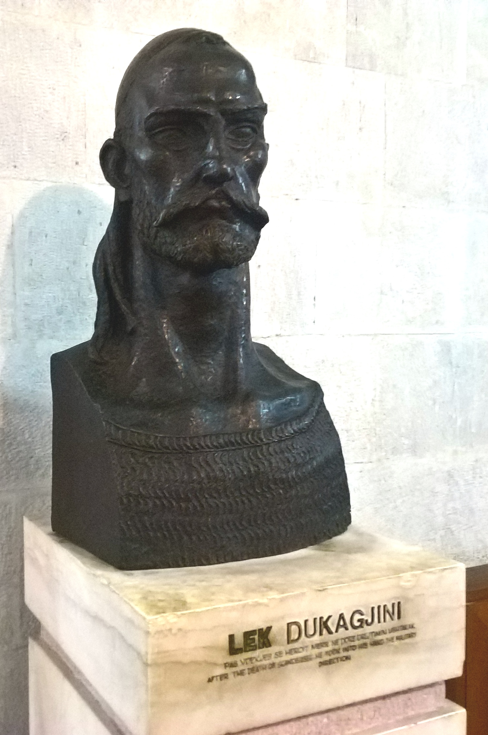 Statue of Lekë Dukagjini in the Skanderbeg Museum in Krujë